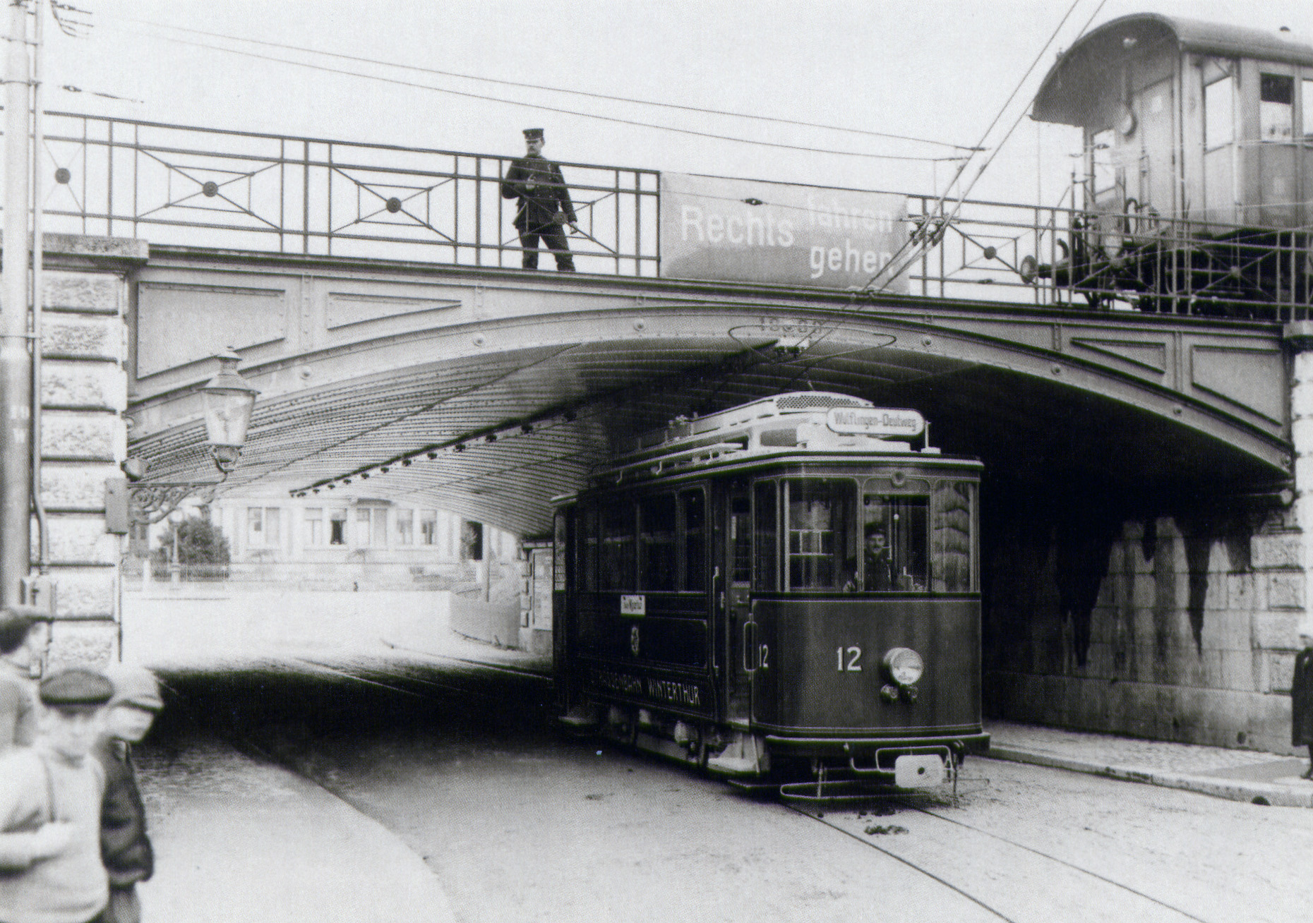 Winterthur: Railway bridge, built in 1888